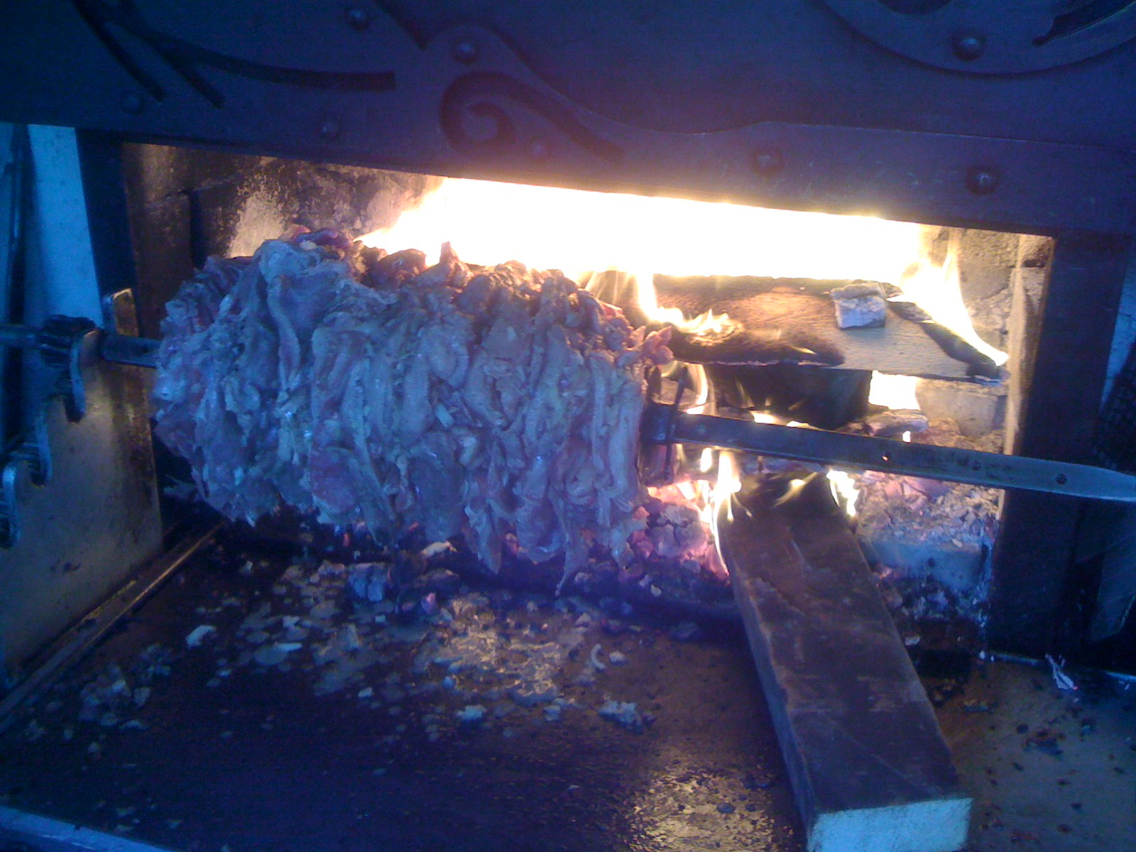 Cağ Kebabı of Erzurum in Turkey - Rotissâge phase.